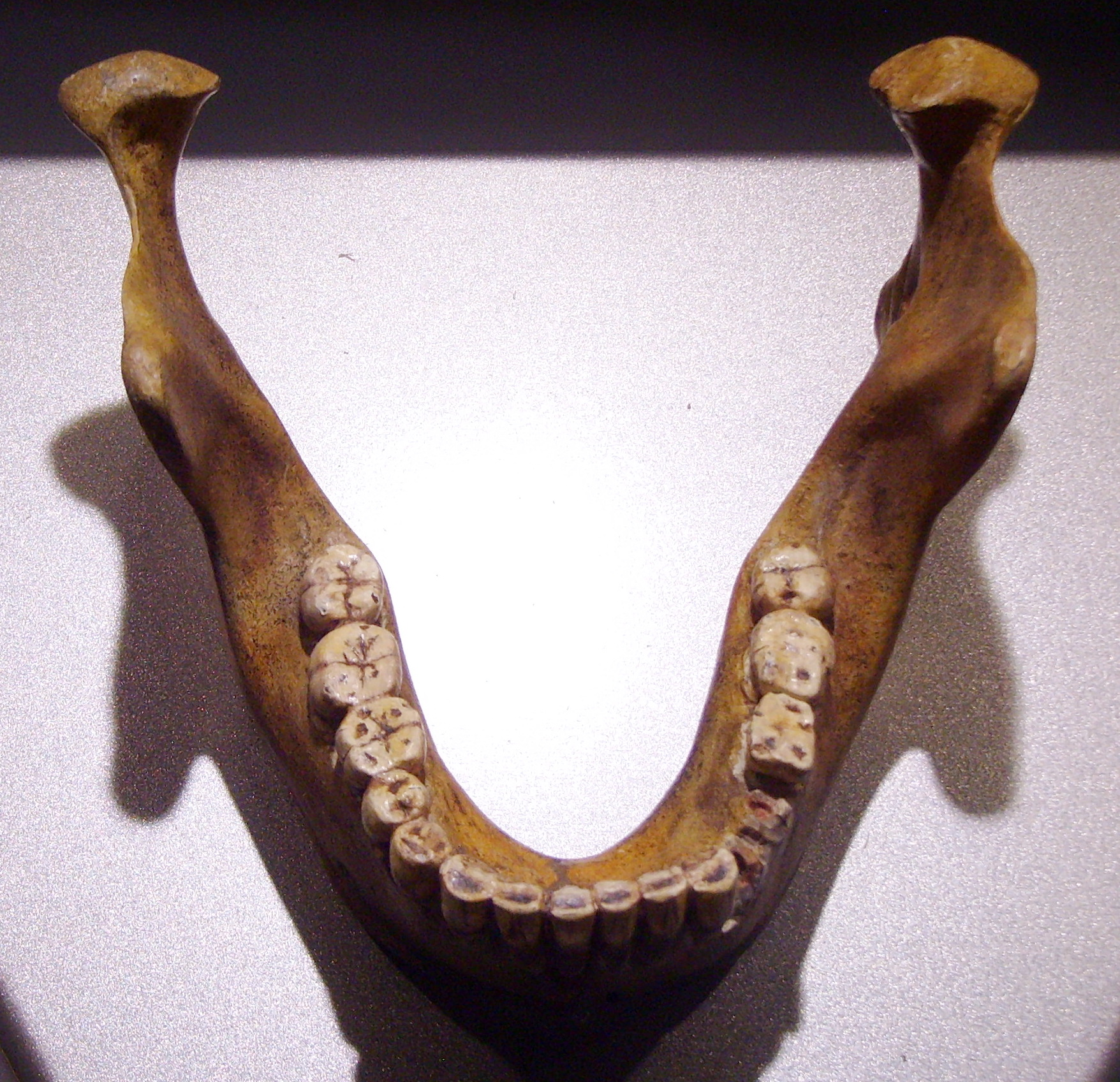 Mandible (lower jaw) of the type specimen of Homo heidelbergenis from Mauer near Heidelberg, Germany (replika, Museum Mauer)